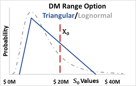 Range Option showing triangular distribution